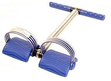 Pedal Expander 2020